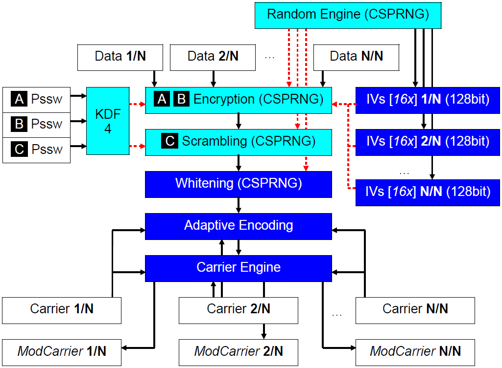 OpenPuff v3.30 Architecture - 1